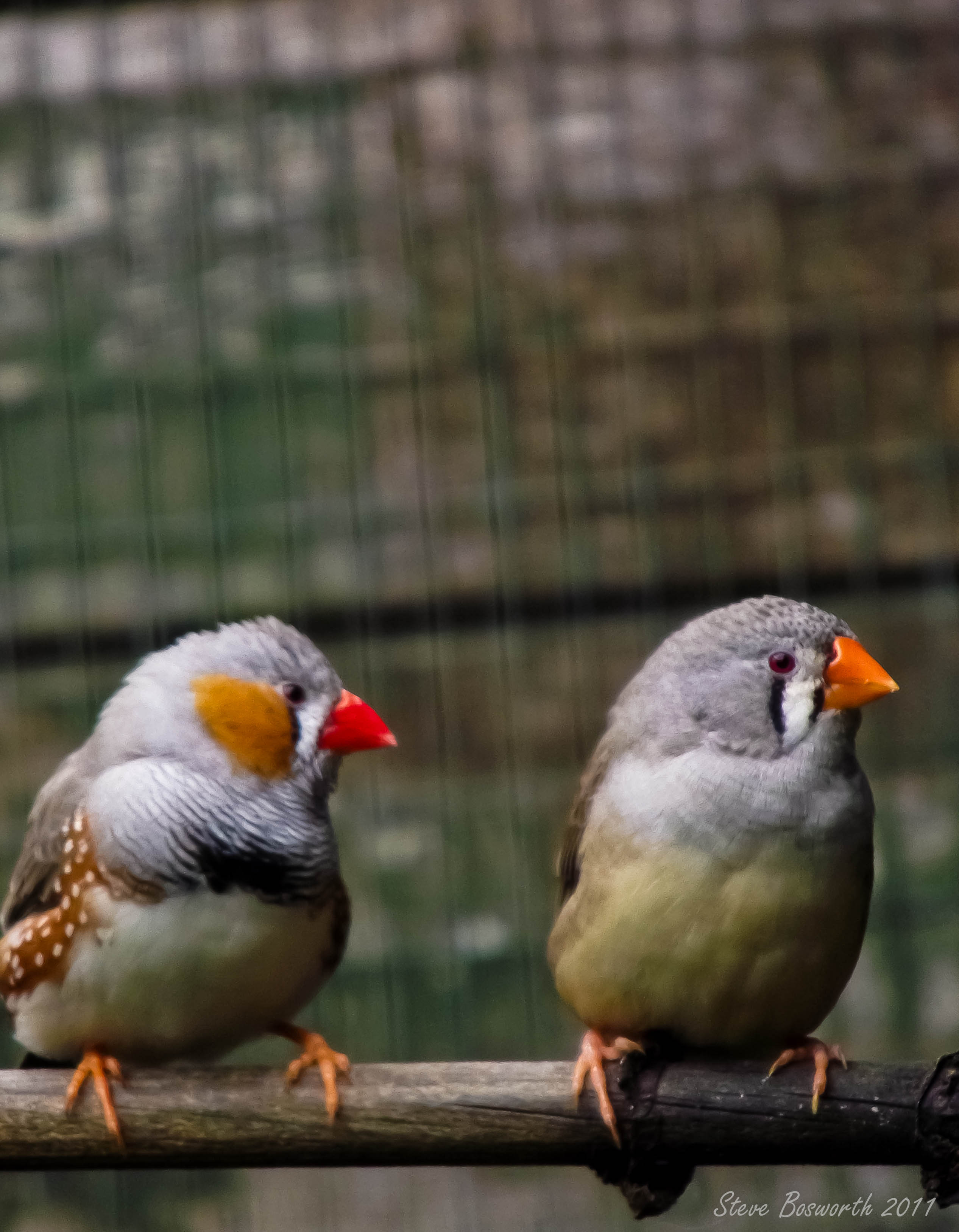 A pair of Zebra Finches in a private aviary.